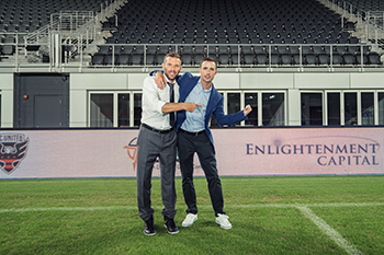 DC United One Night One Goal